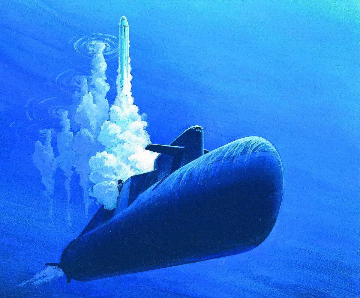 SOVIET DELTA SUBMARINE FIRING SS-N-18 MISSILES A Soviet DELTA III nuclear powered ballistic missile submarine firing SS-N-18 missiles. The DELTA III submarine was 155 meters long, had 16 missile firing tubes, and carried SS-N-18 nuclear missiles.